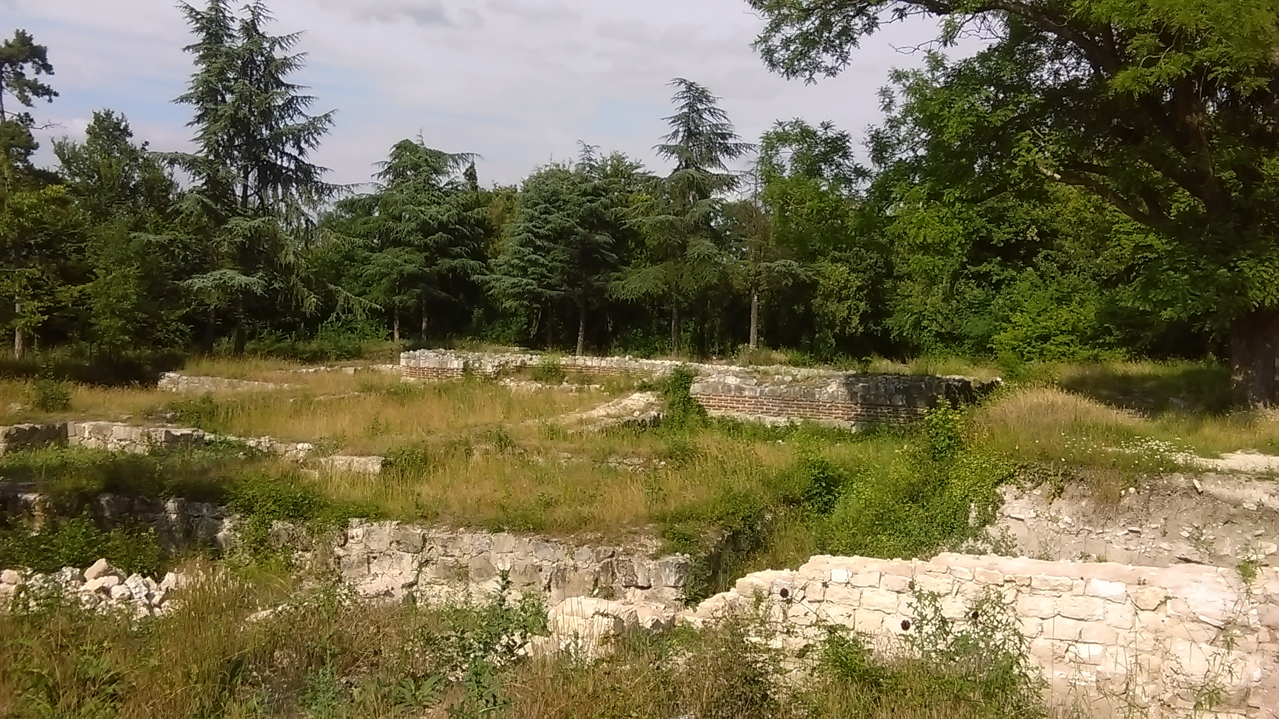 Early christian basilica ruins near Varna